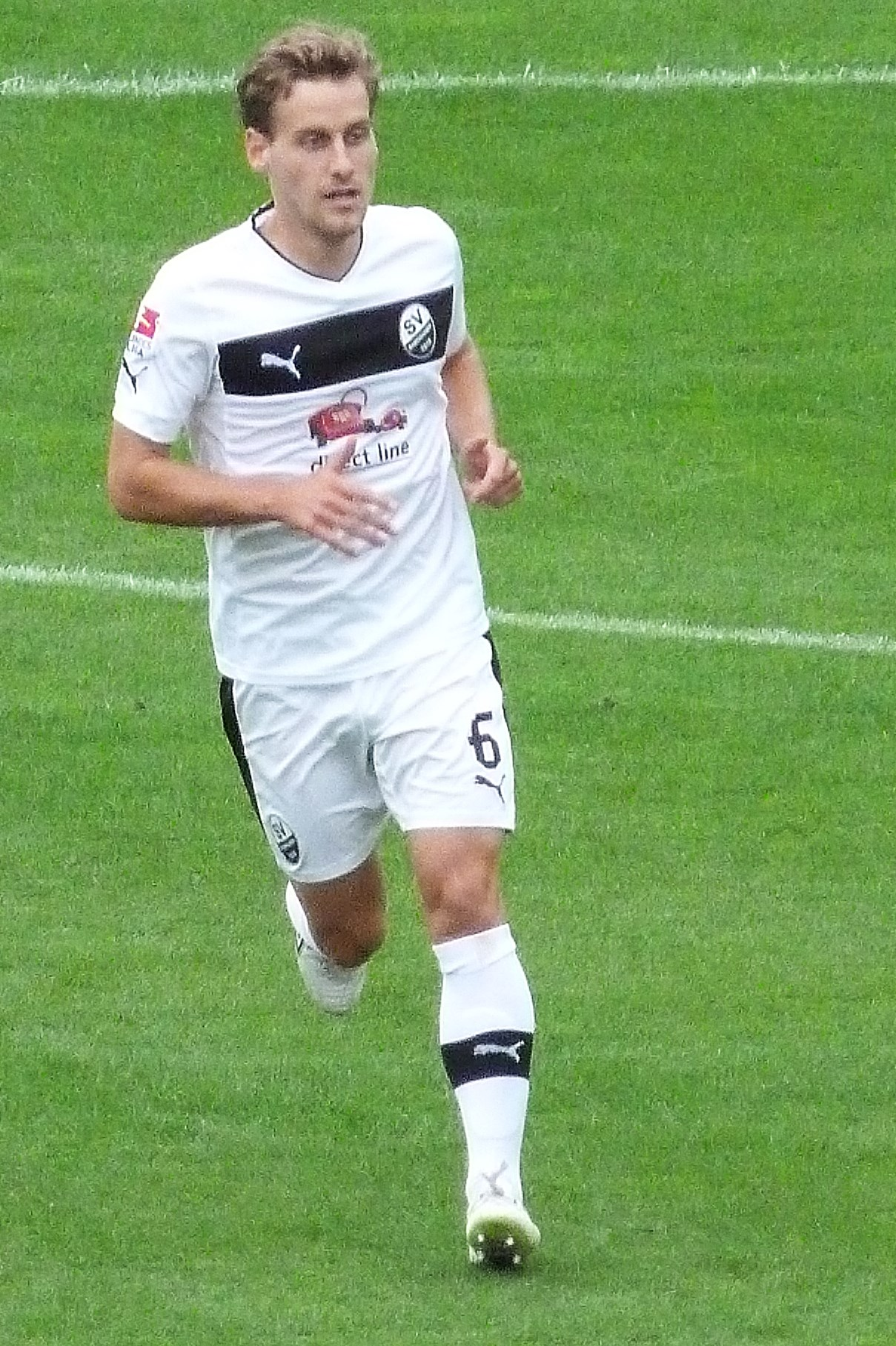 Sören Halfar as Player by SV Sandhausen